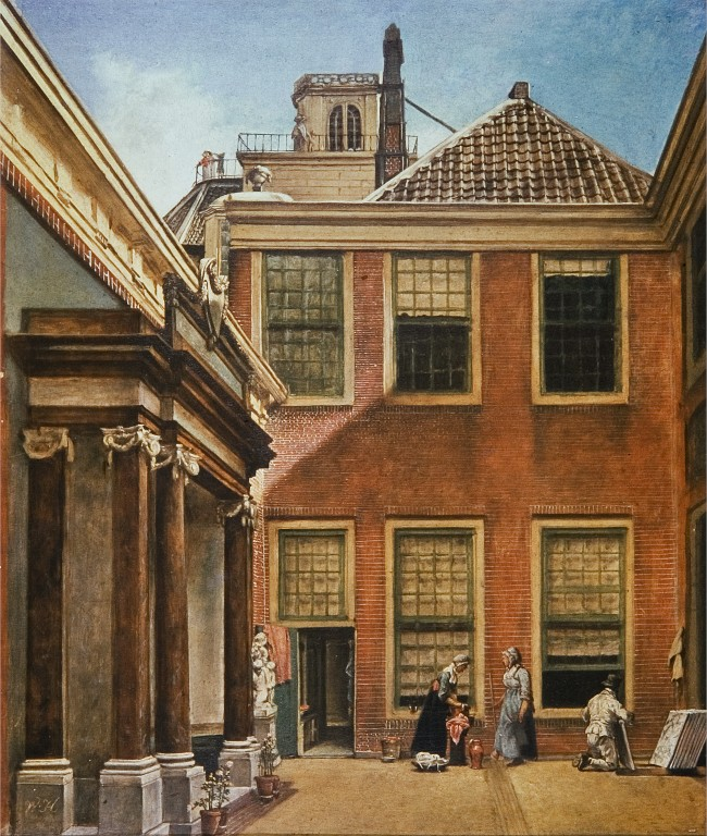 Wybrand Hendriks, Courtyard of Teylers Foundation House, Haarlem, about 1800, oil on panel, 43.5 x 51.6 cm. Collection Teylers Museum, Haarlem, the Netherlands.